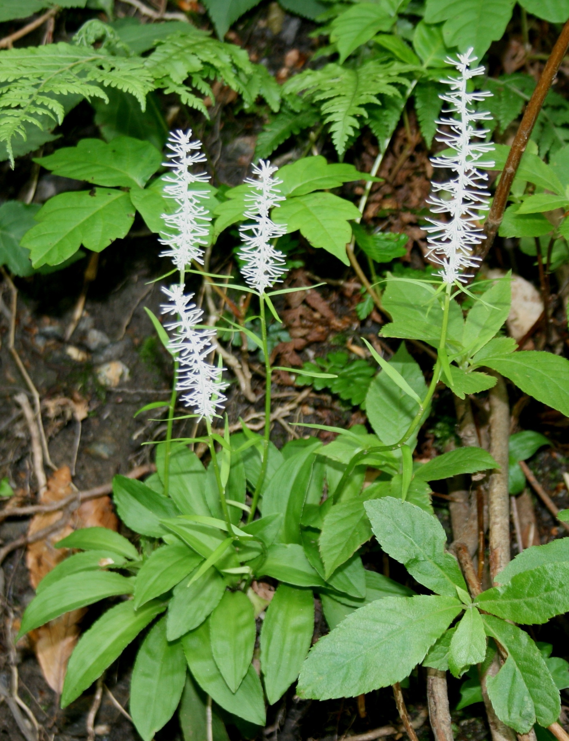 Chionographis japonica, Ikeda, Fukui pref., Japan.